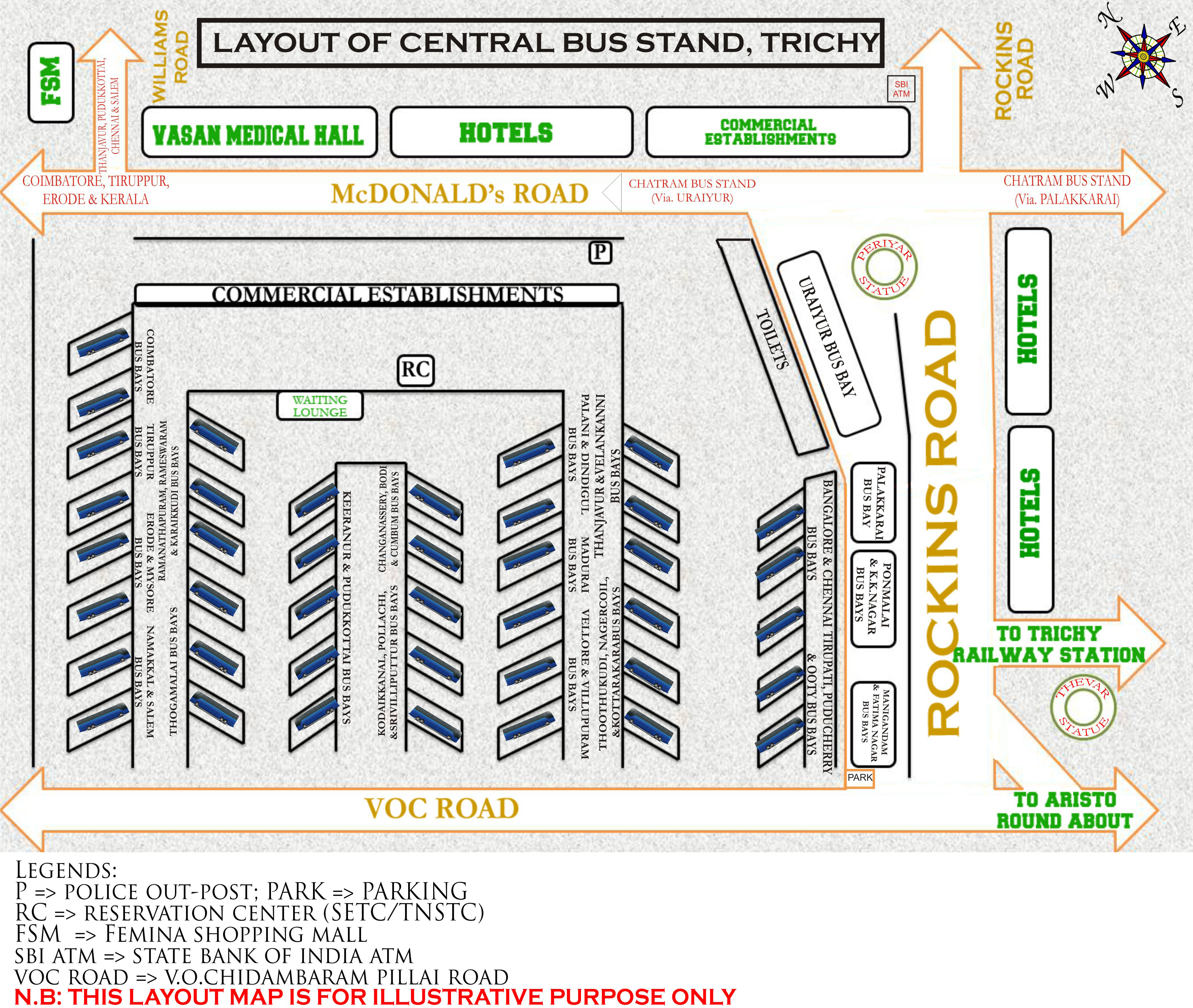 An illustrative layout of Central Bus Station, Tiruchirappalli in Tamil Nadu, India. This is not to scale